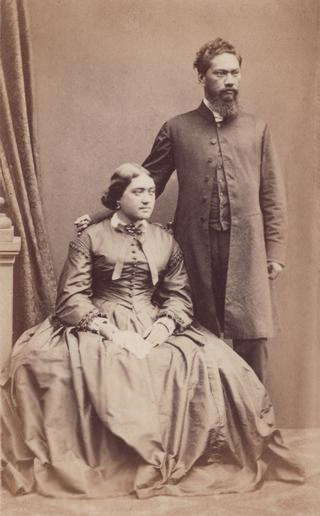 High Chief William Hoapili Kaʻauwai and High Chiefess Mary Ann Kiliwehi, uncle and aunt of Elizabeth Kahanu Kalanianaʻole. They accompanied Queen Emma on her memorable visit to London in 1865. A carte-de-visite portrait of Reverend and Mrs. William Hoapili Kaauwai by W. Jeffrey of London.